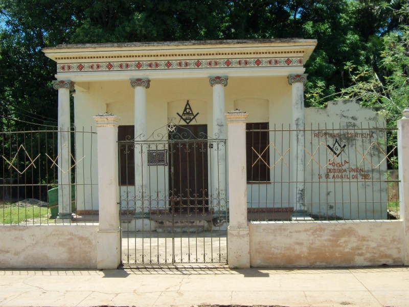 Logía Masónica en Melena del Sur